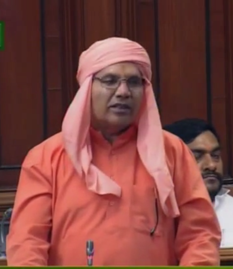 Former BJP MP Mahant Chandnath